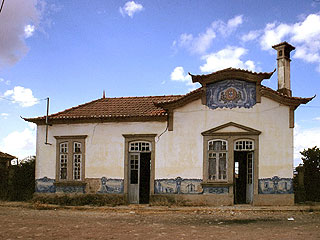 Railway station of Sendim.